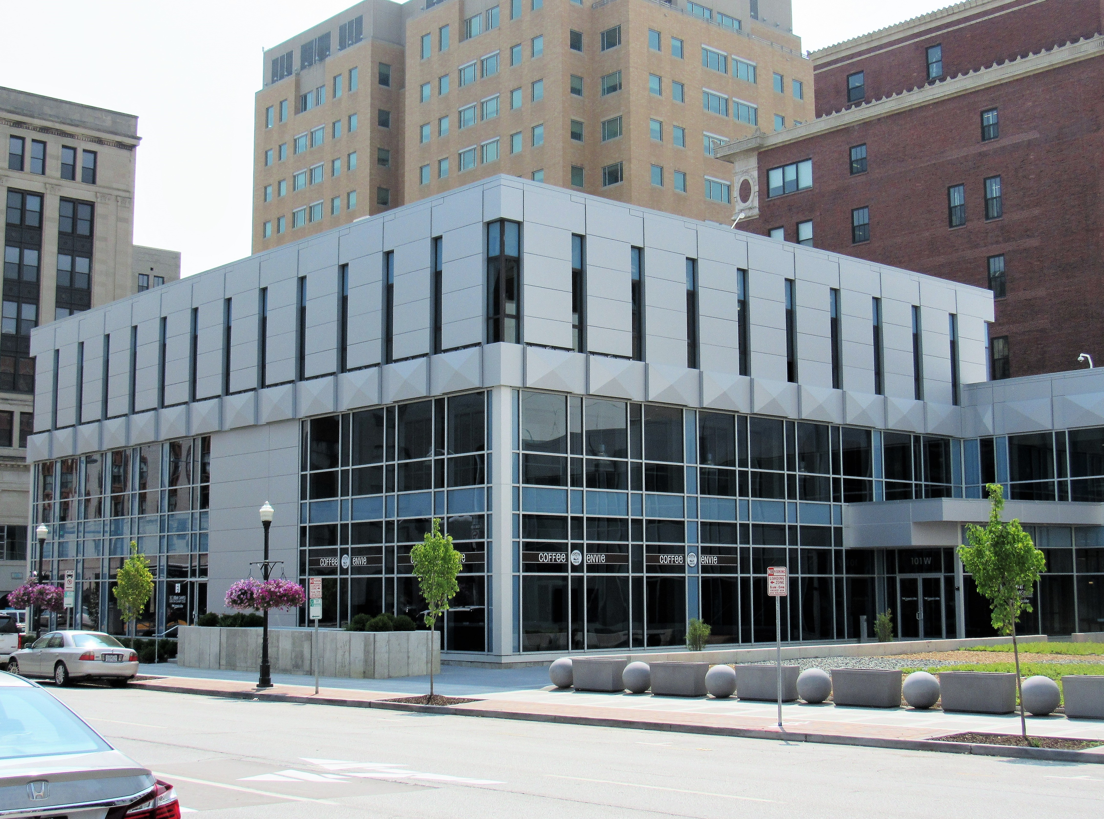 Part of the urban campus of Scott Community College in Davenport, Iowa. It mainly houses administrative offices for Eastern Iowa Community Colleges, but it does have a couple of classrooms and a coffee shop. The structure was originally built as Citizen's Federal Savings and Loan in 1975 and later became First Midwest Bank. It was renovated from a Brutalist structure to a more simple Modern structure from 2017-2018.